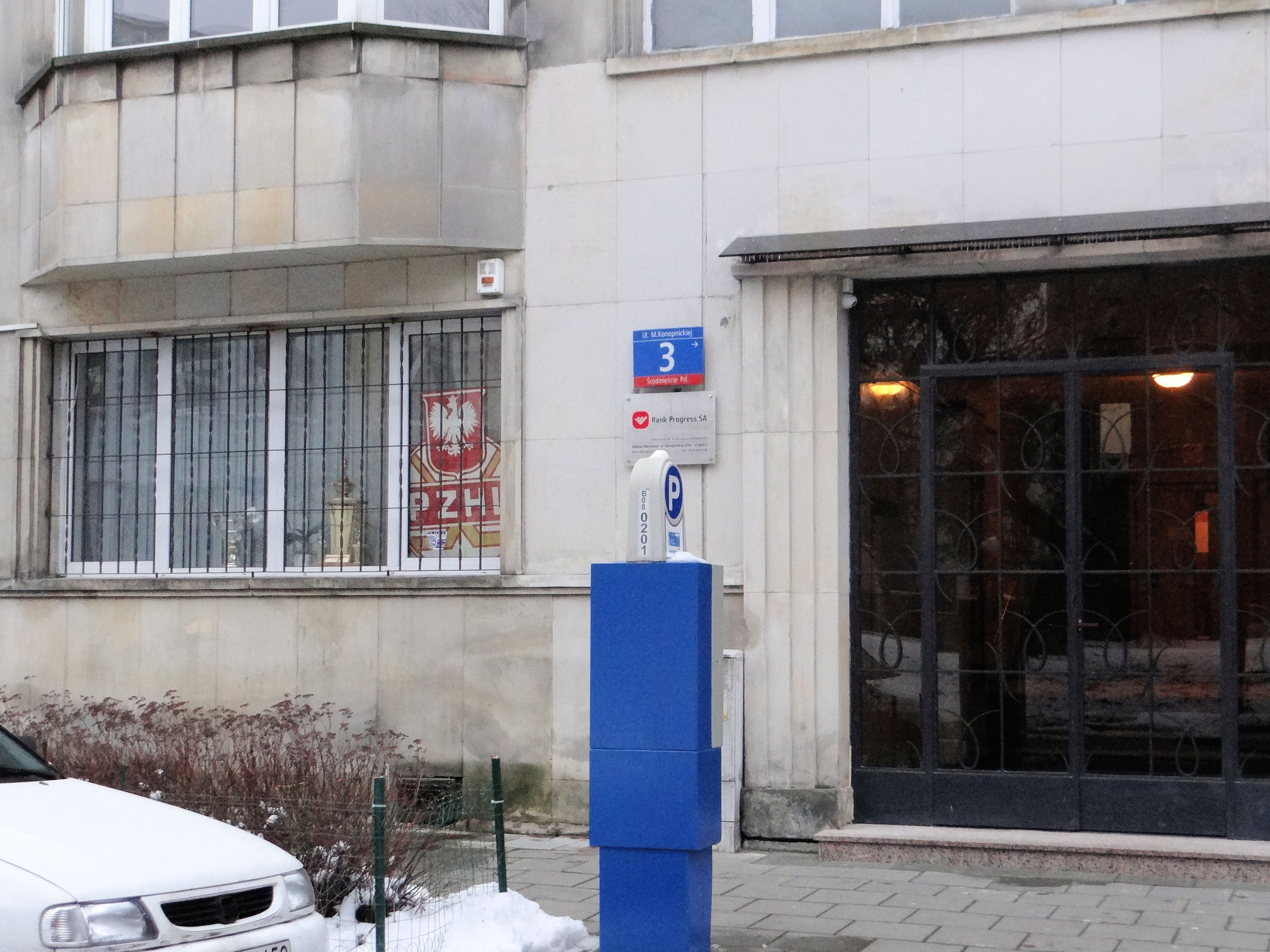 Office of Polish Association of Ice Hockey in Warsaw